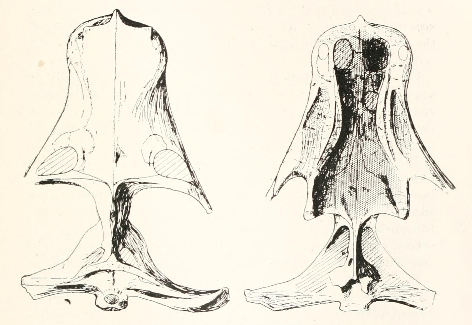 Illustration of the holotype skull of Whaitsia platyceps in dorsal (left) and ventral (right) views from "Some new carnivorous Therapsida, with notes upon the braincase in certain species" by Sydney H. Haughton (Annals of the South African Museum 12: 175-216).